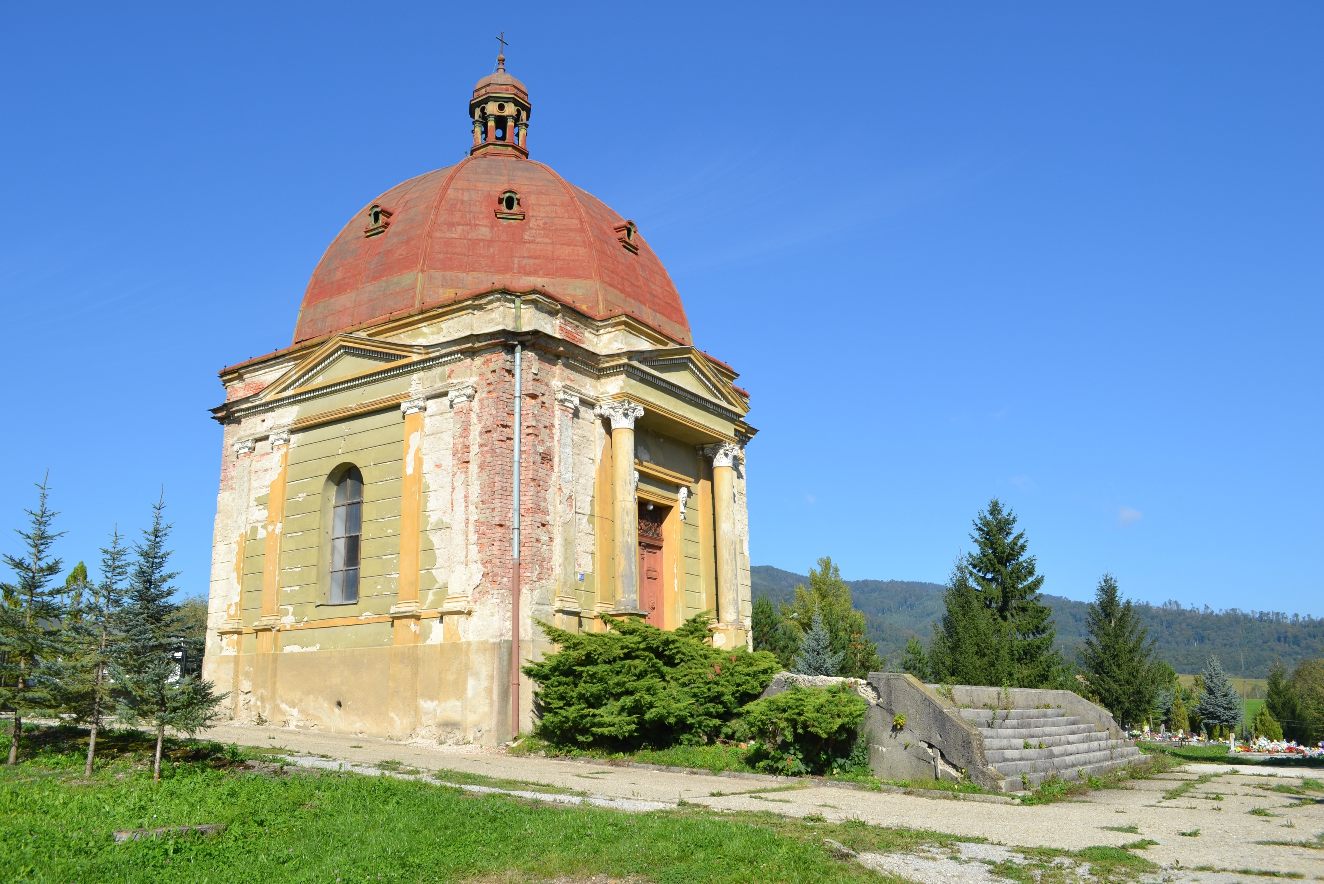 The Crypt Chapel in Hnúšťa is Neo-Renaissance building erected 1902Slovenčina: Kaplnka s kryptou v Hnúšti je neorenesačnou budovou z roku 1902